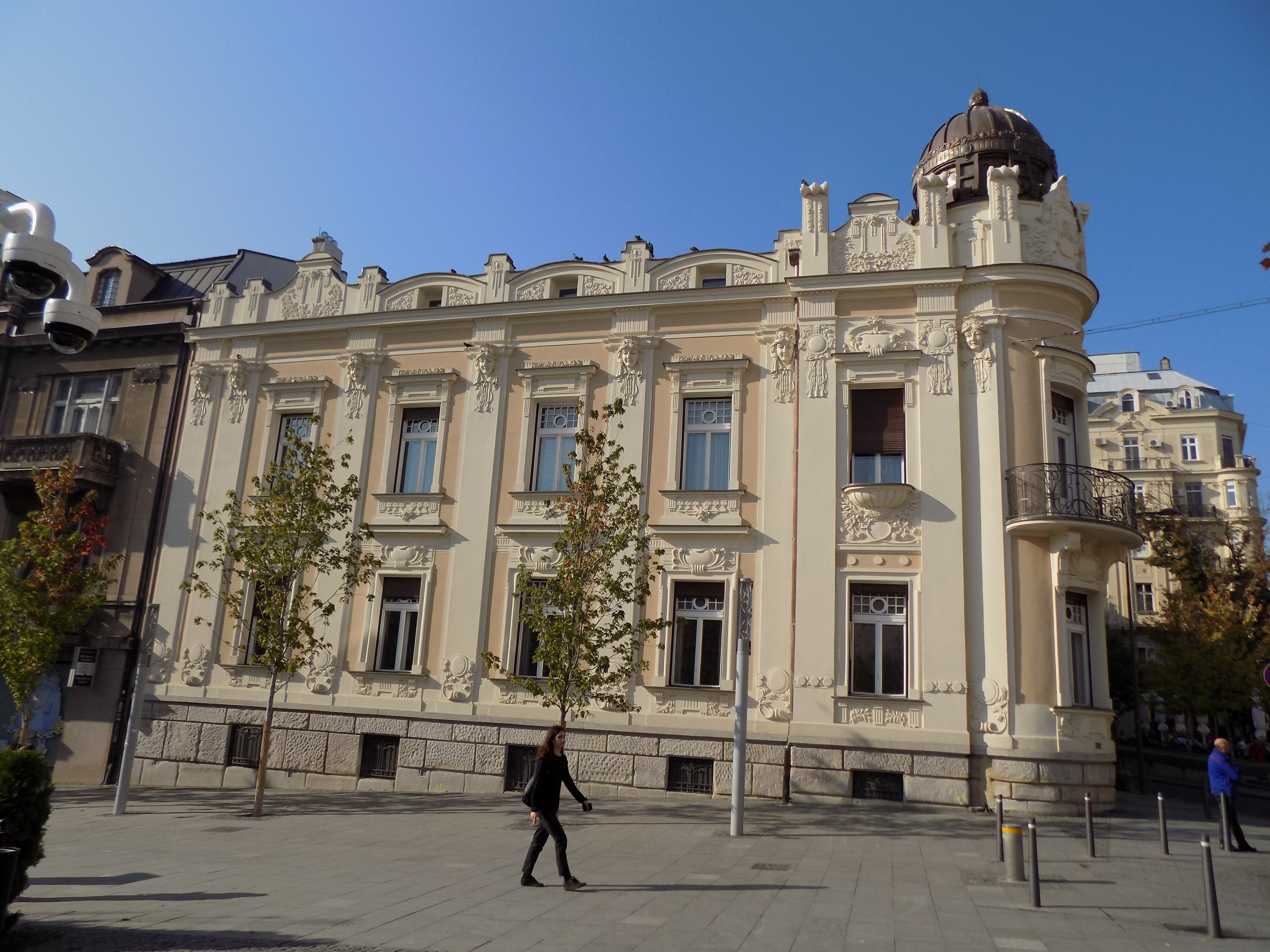 The House of Milan A. Pavlovic, which housed the famous "Jockey Club" between the two World Wars, with a renovated facade (2019)